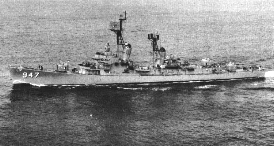 The U.S. Navy destroyer USS Somers (DD-947) underway in the Pacific Ocean, circa 1963. During 1963, crewmwn from Somers helped to fight a fire in Townsville, Australia.